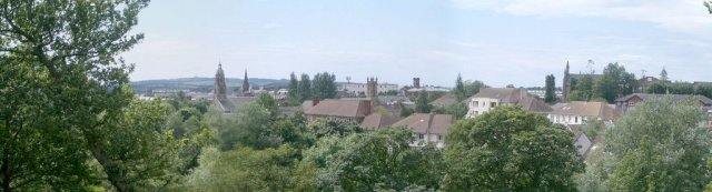 Towards Kilmarnock Town Centre. View of the town from the Kay Park near Burns Monument, looking South West. Left To Right. The High Church, The Laigh Kirk, The West High Kirk, Kilmarnock Railway Station, St Joseph's Church and Johnnie Walkers.